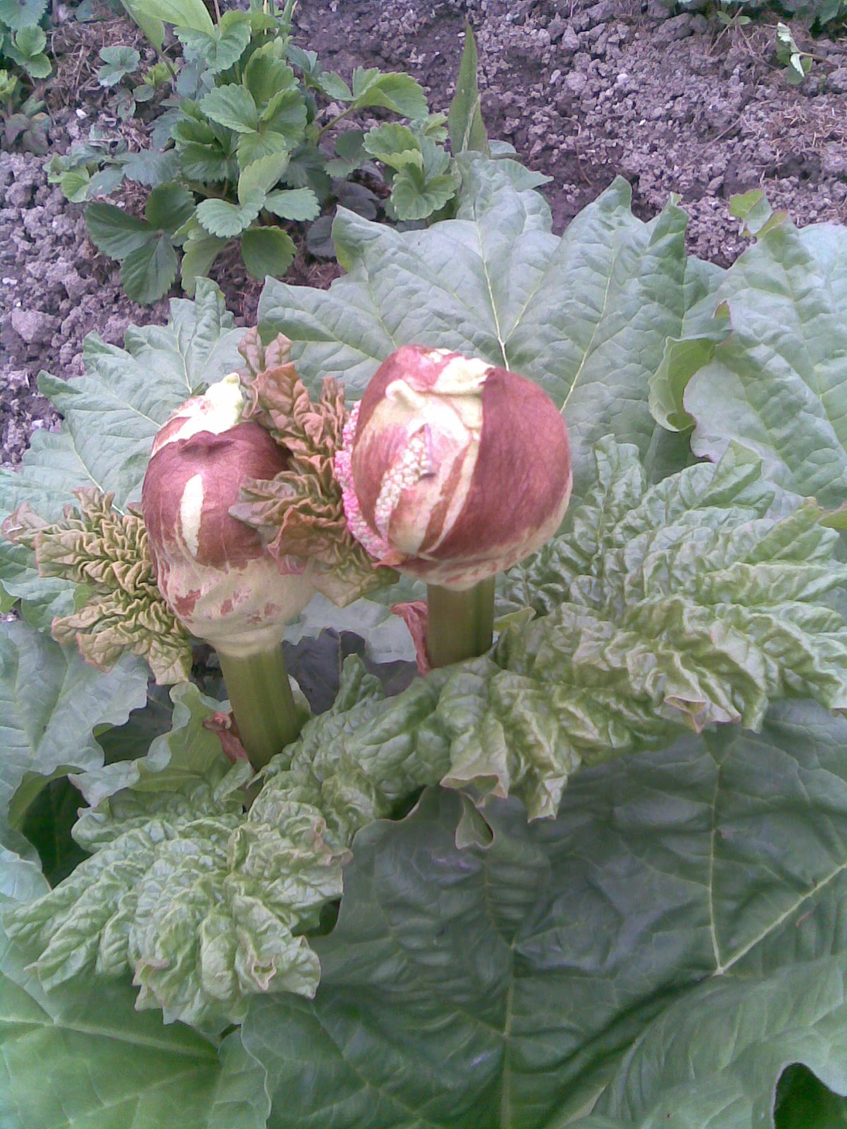 Rhubarb (Rheum rhabarbarum) flowers in my garden in Lónyaytelep, Transylvania.